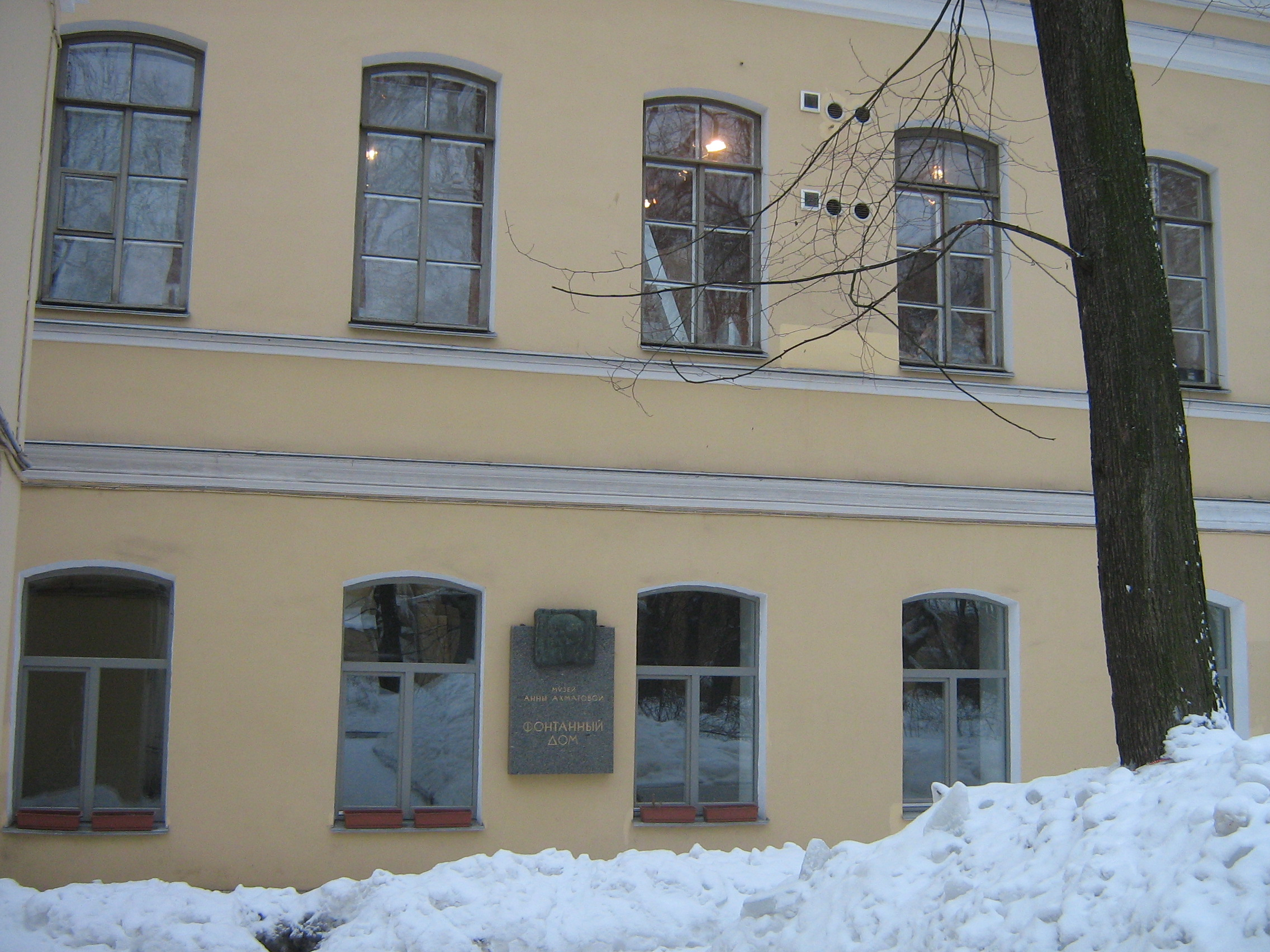 Saint Petersburg (Russia), Liteyny Avenue